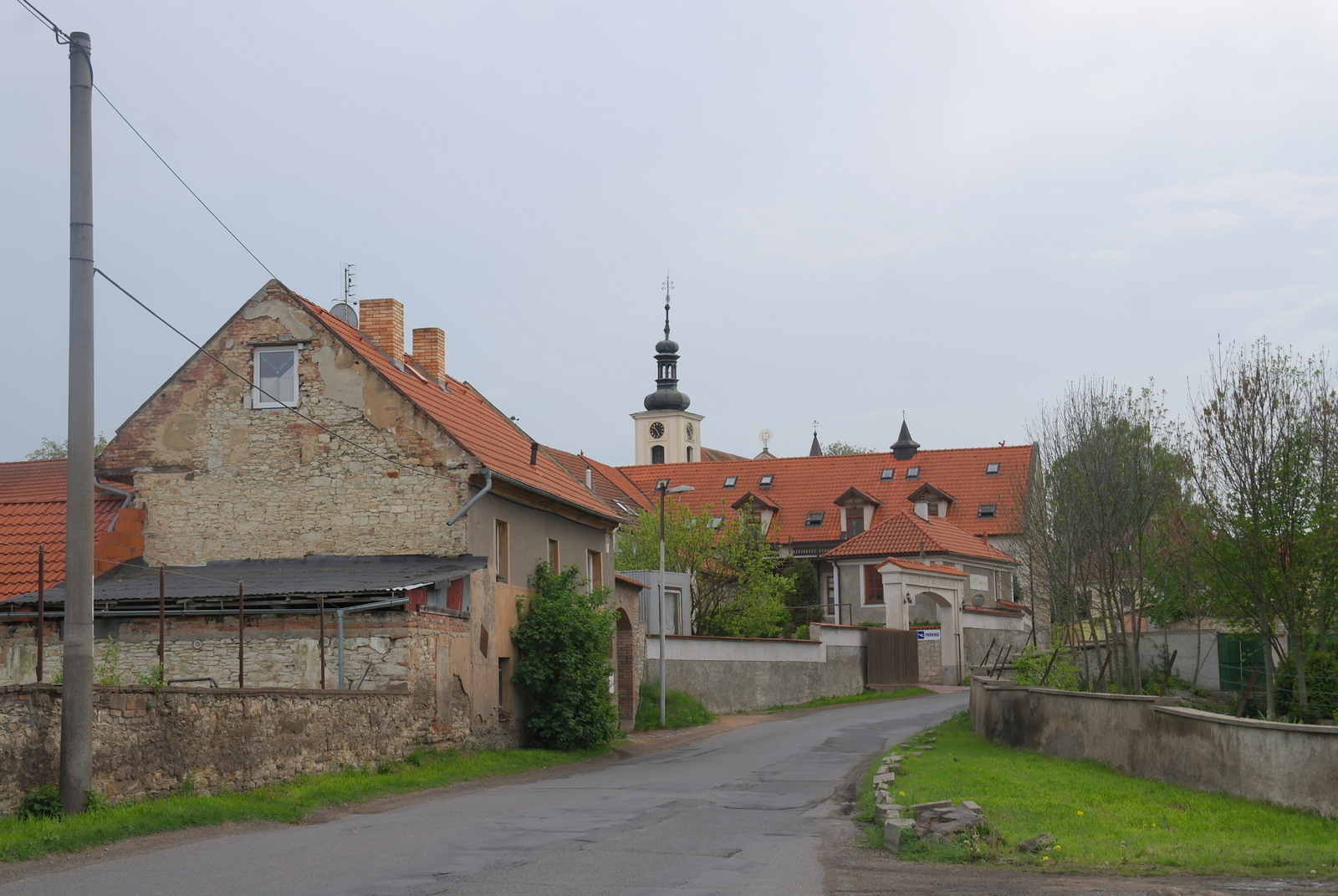 Středokluky,Kladenská str., Prague - west District